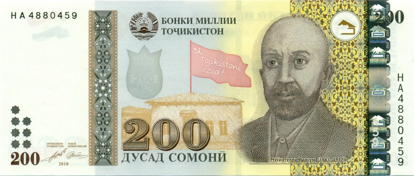 Tajikistani somoni Тоҷикӣ: Сомонӣ